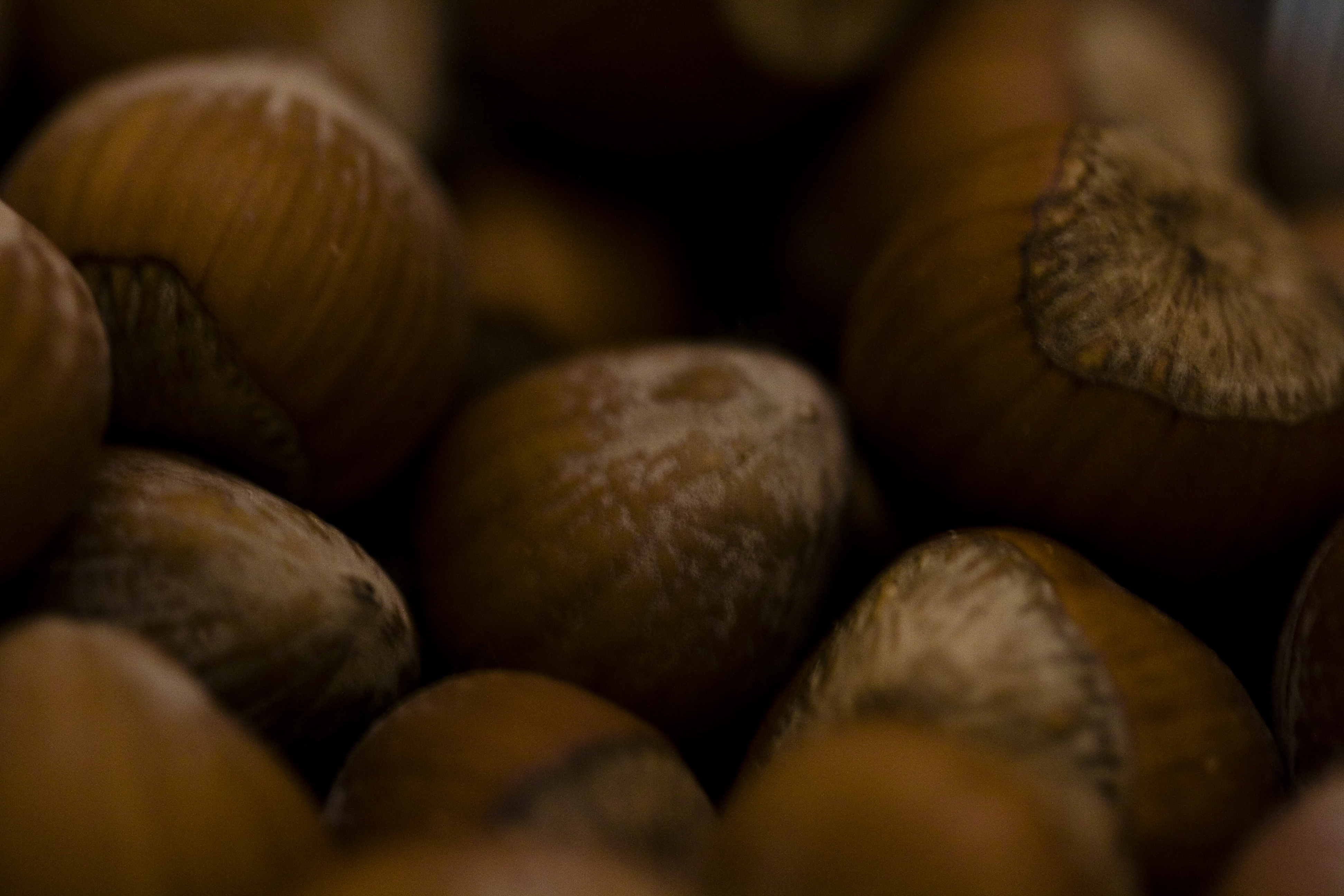 bowlful of hazelnuts